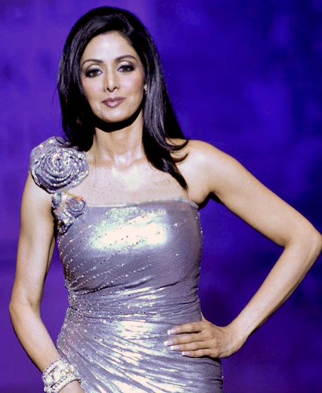 Sridevi at at Neeta Lulla's show for Lakme Fashion Week 2010. (Cropped number 3).